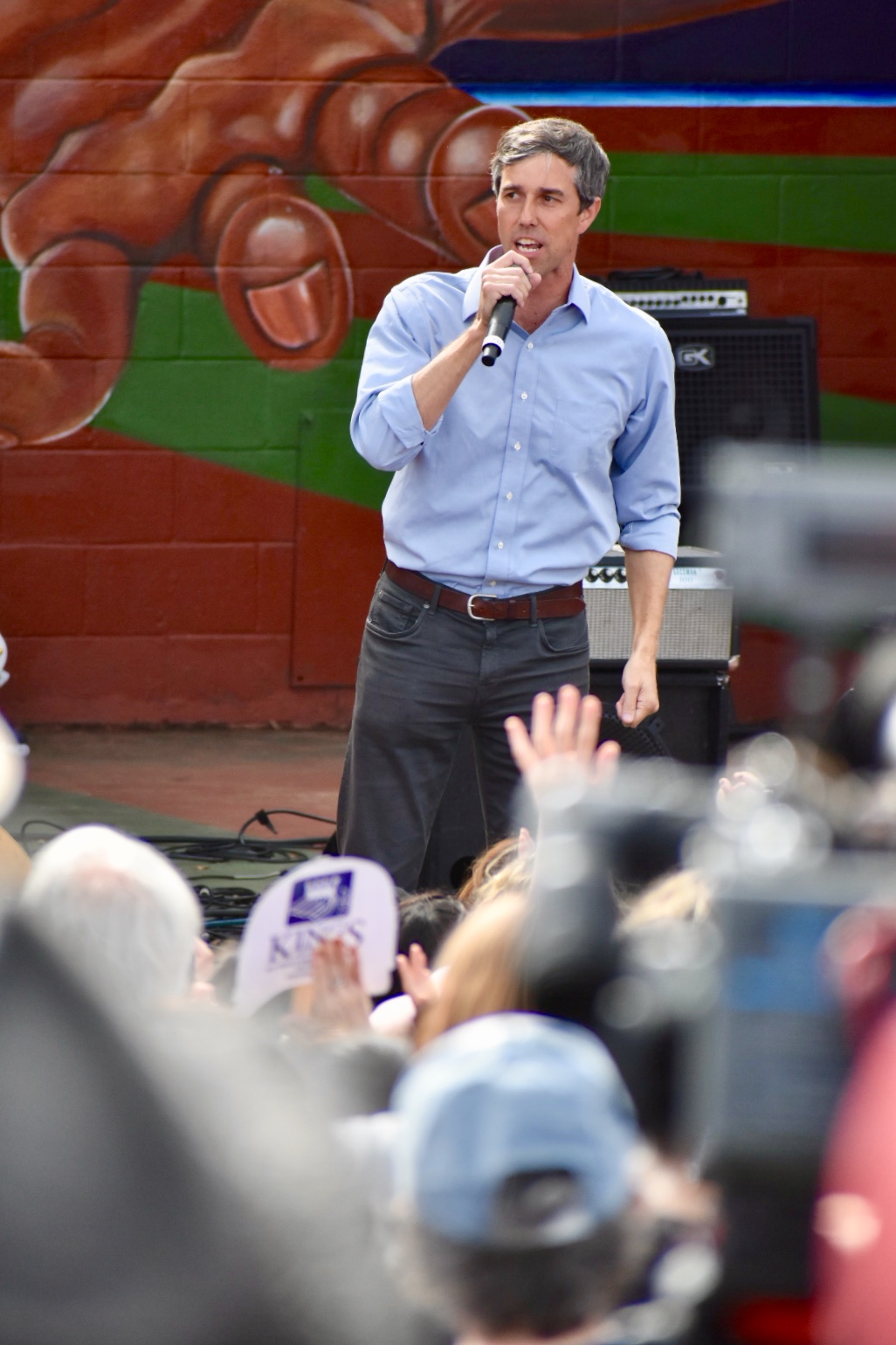 Beto Rally at the Pan American Neighborhood Park, Austin